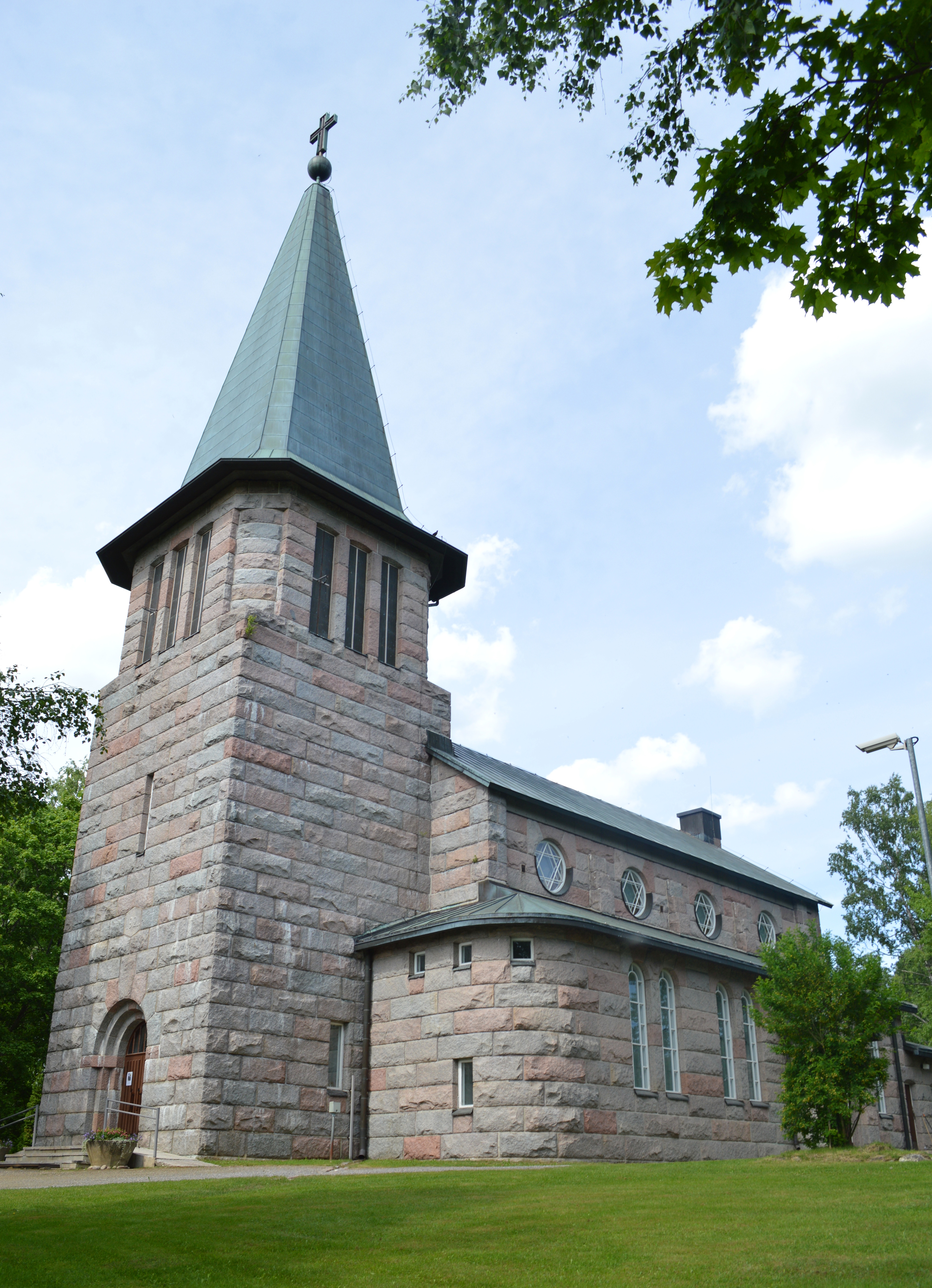 Kalvola Church in Hämeenlinna, Finland.